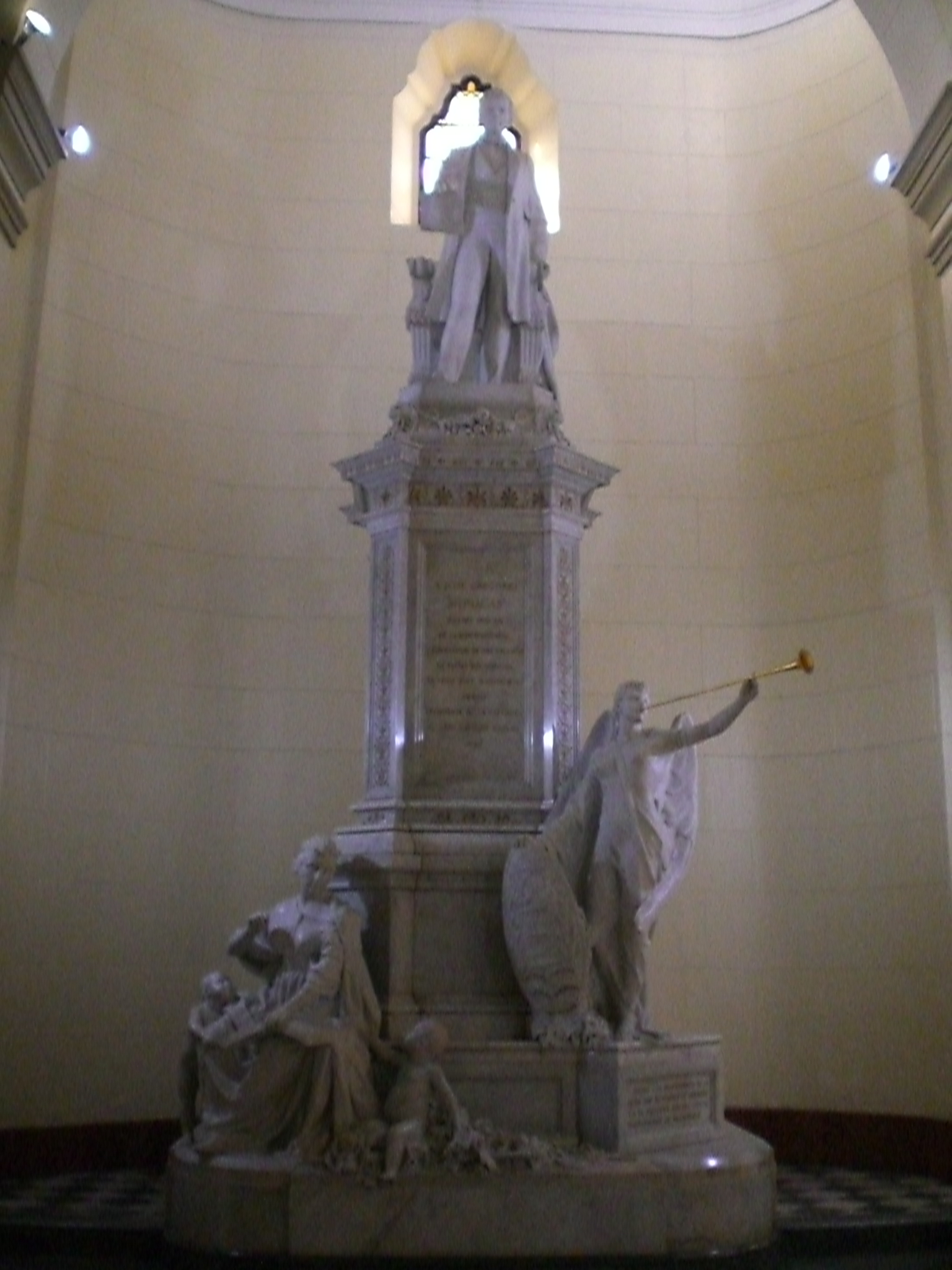 Monument to José Gregorio Monagas at the National Pantheon.